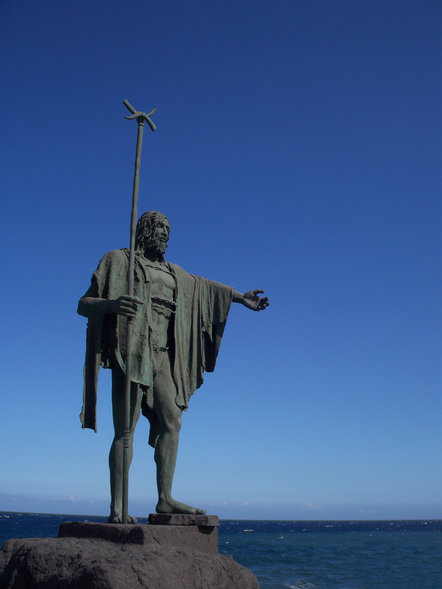 Guanche de Tenerife